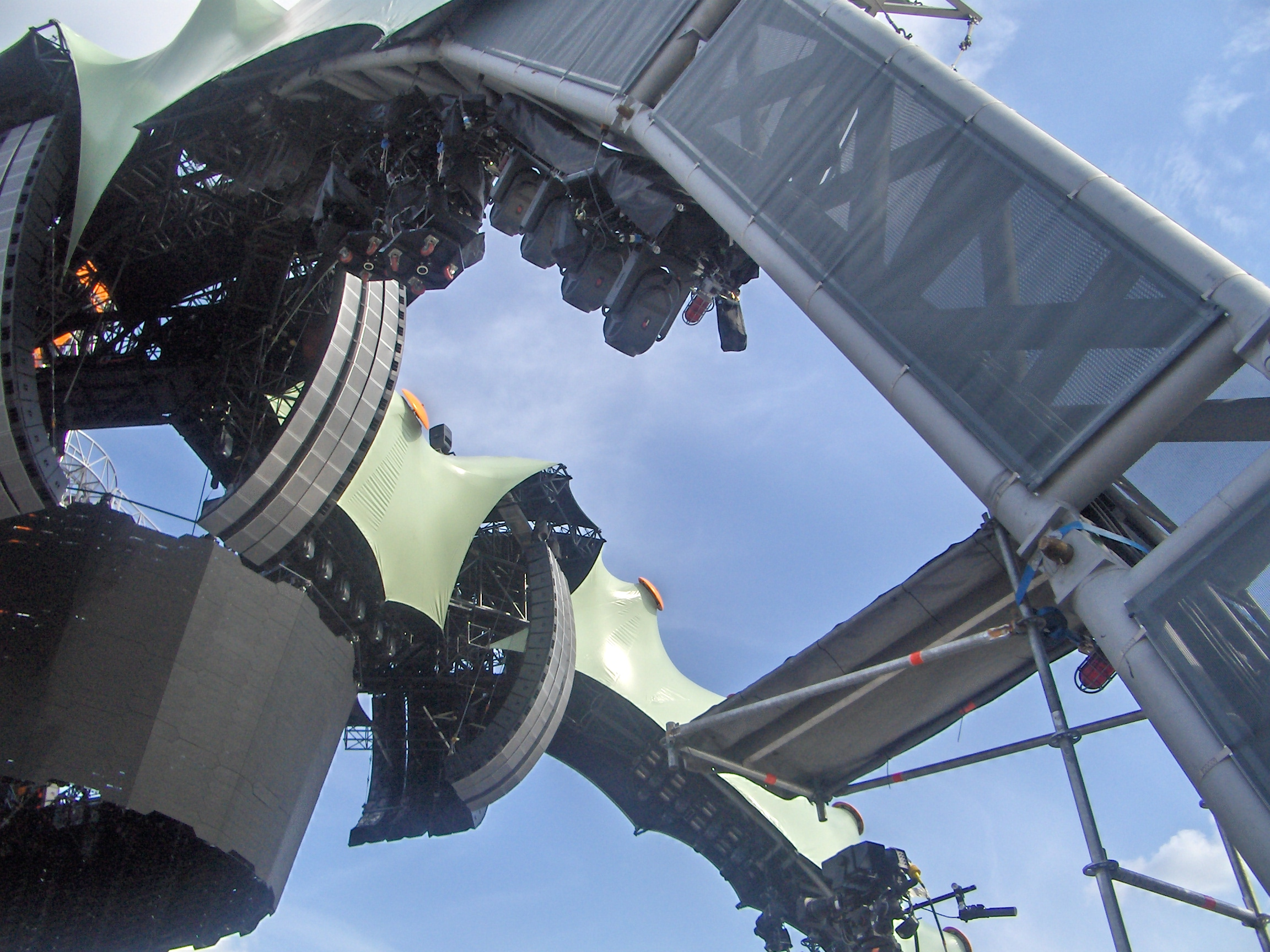 Detail of "The Claw" stage in Zagreb, 2009-08-09